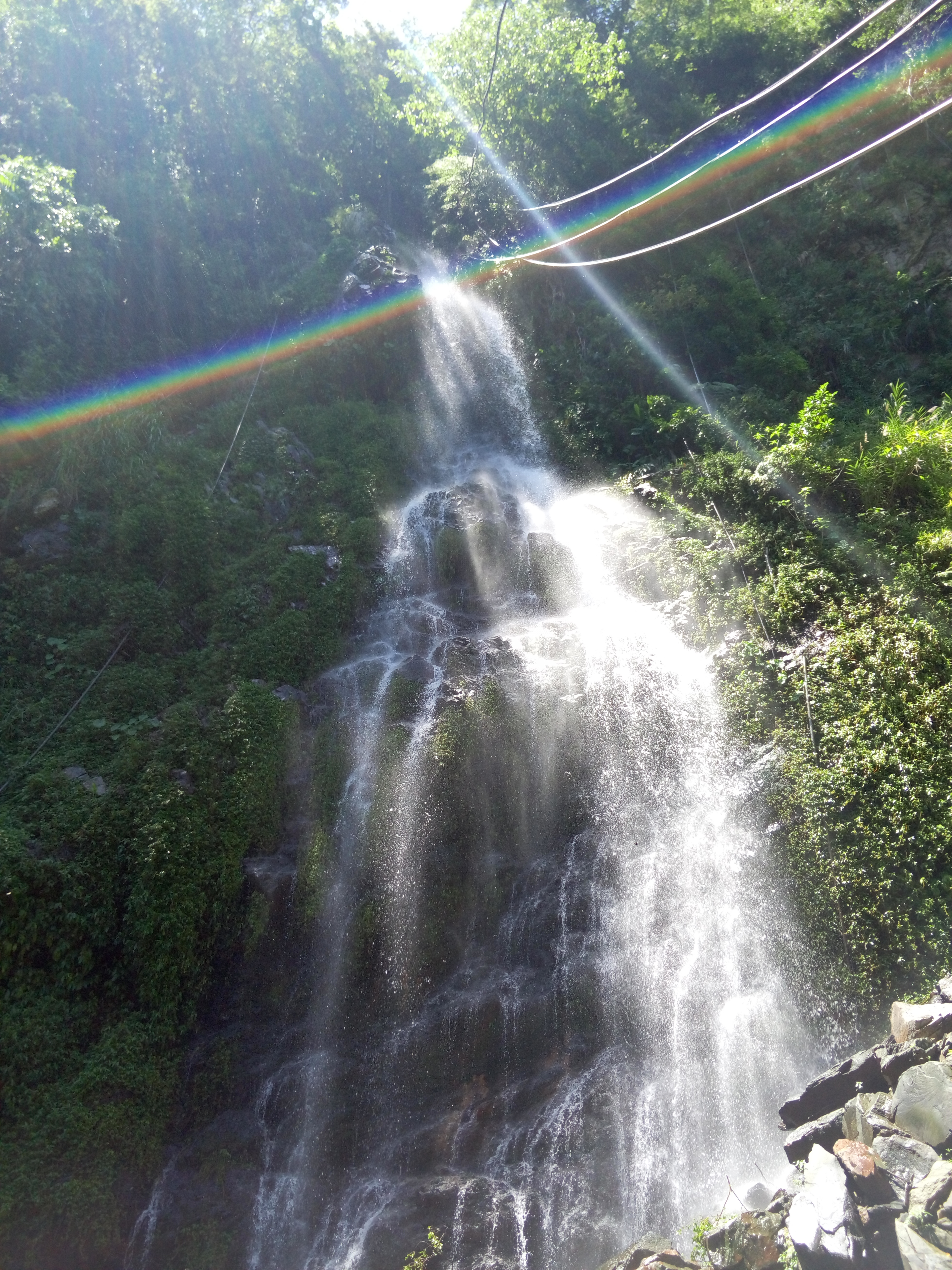 Taiwan Taitung County Bai-Yu Waterfall Main Waterfall